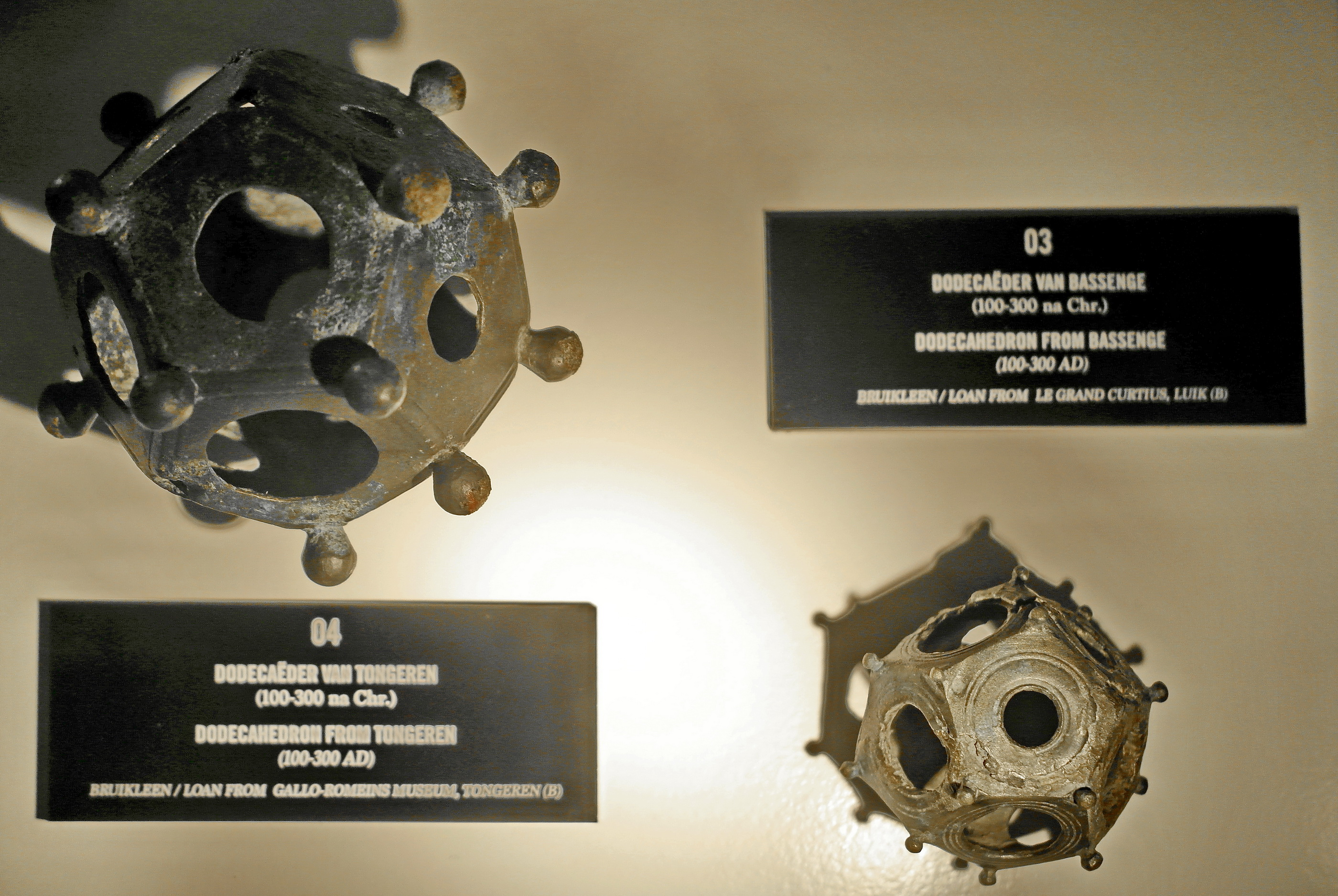 Two ancient Roman dodecahedrons, photographed at the temporary exhibition Top or Topic in Centre Céramique in Maastricht, the Netherlands. The larger one (height: 8.1 cm) was found in 1939 around Leopoldswal in Tongeren, Belgium (the Roman city of Atuatuca Tungrorum). The 20 corners are decorated with separately attached dots of which 4 are missing. Collection of Gallo-Romeins Museum, Tongeren. The smaller one (height: ca 4.5 cm) was discovered in a grave in Bassenge, near Tongeren. Collection of the Grand Curtius, Liège.